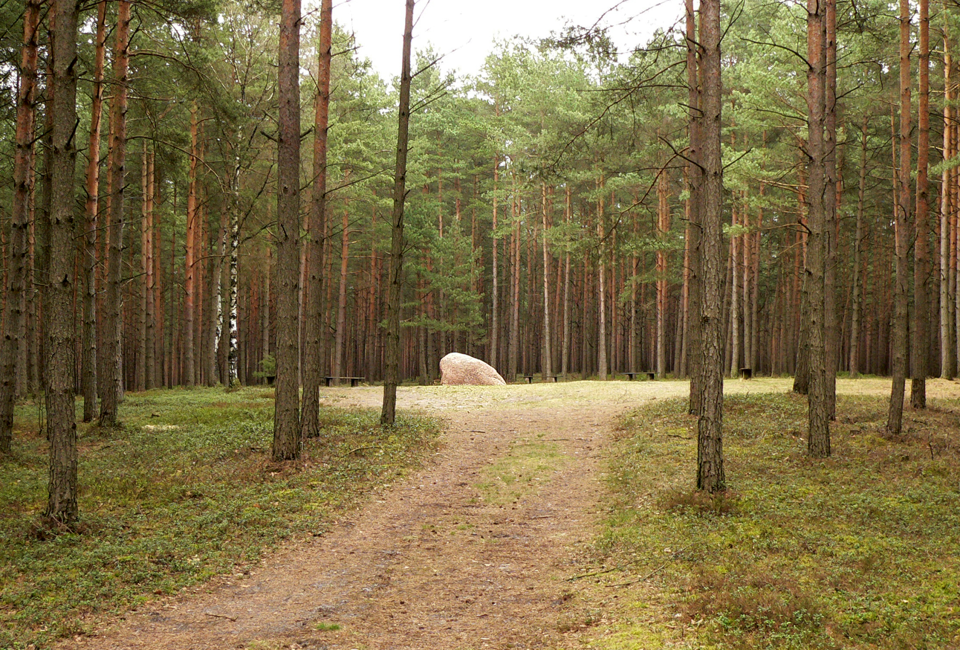 The “Bickelstein”, an erratic boulder in Gifhorn county, eastern Lower Saxony, Germany, from the distance.